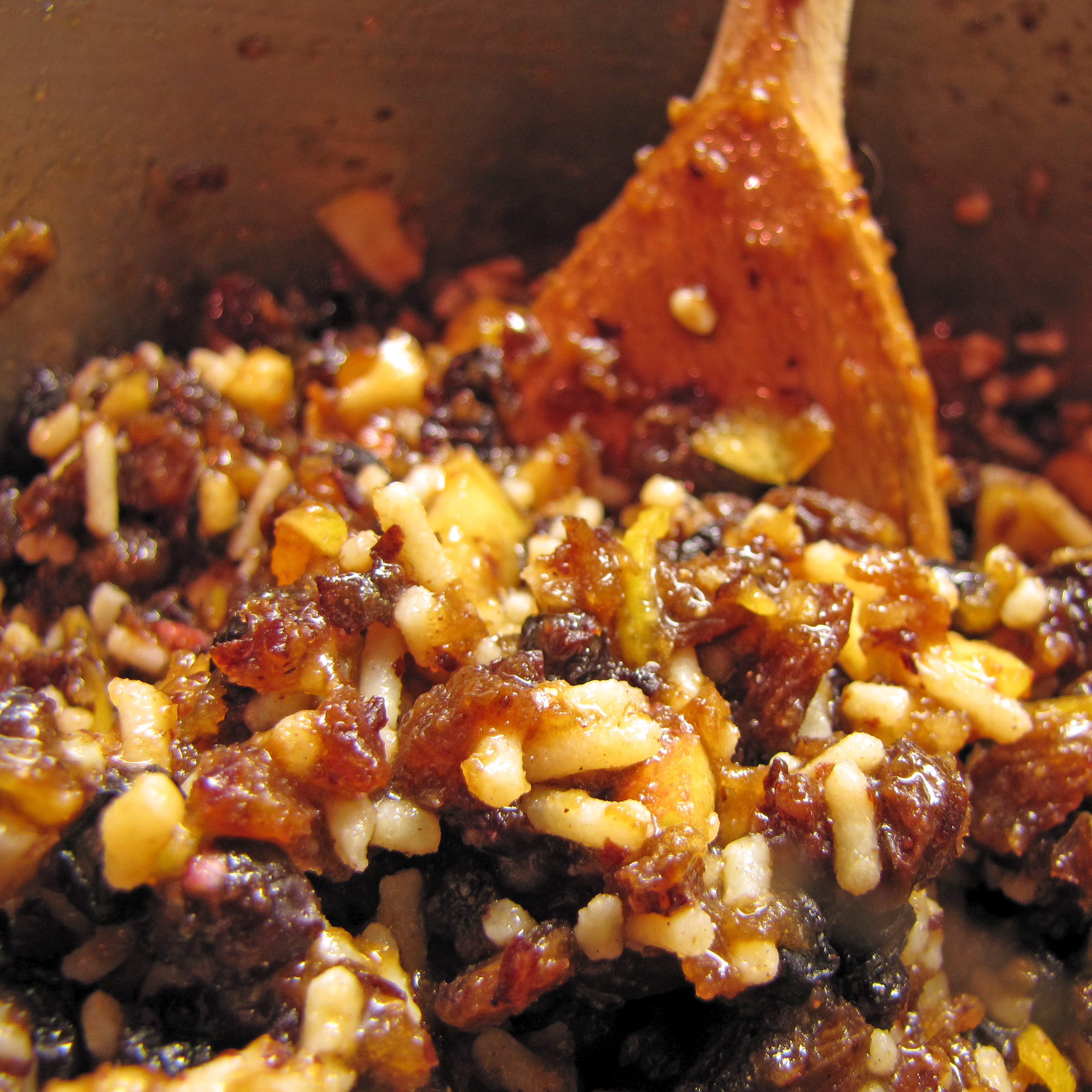 Mincemeat Home made mincemeat. 450g apples 450g (zante) currants 450g light brown sugar 350g vegetarian suet 225g seedless raisins * 225g sultanas * 100g candied peel 100g stem ginger 1 tsp mixed spice 0.5 tsp ground ginger half a nutmeg nut (or 0.5 tsp ground nutmeg) the juice and rind of 2 lemons 1 shot of brandy (optional) Rough up the apples, raisins, sultanas and candied peel in a food mixer. Add all the other ingredients and mix. Cover and leave overnight in a warm dry place. This is what a traditional home-made mince pie filling should look like!!! Stir the mincemeat and then pack into clean, dry Kelner jars. Store in a cool place for at least si.. er, four weeks.